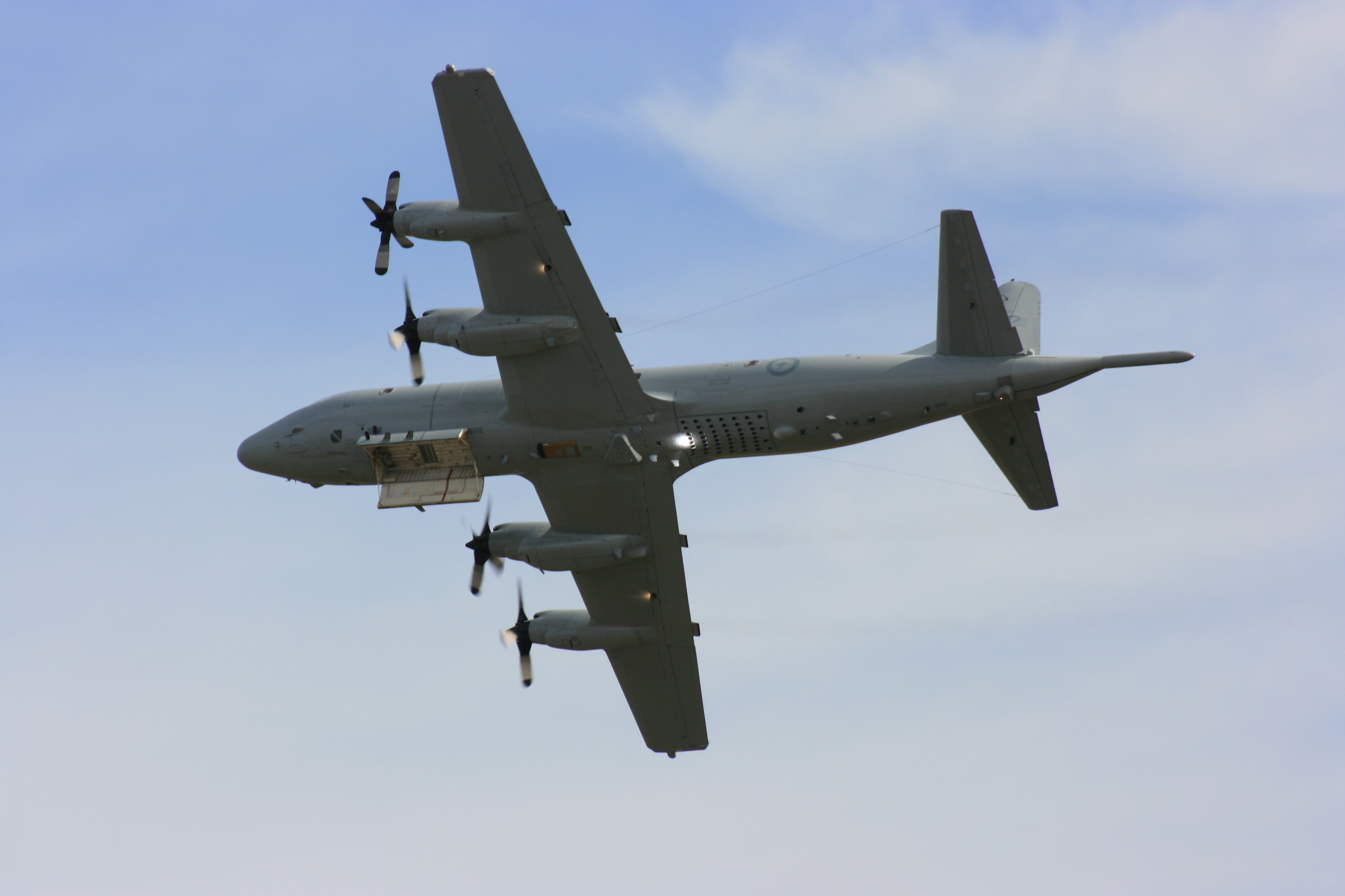 A Royal Australian Air Force (A9-658) AP-3C Orion maritime patrol aircraft in flight with its bomb bay doors open